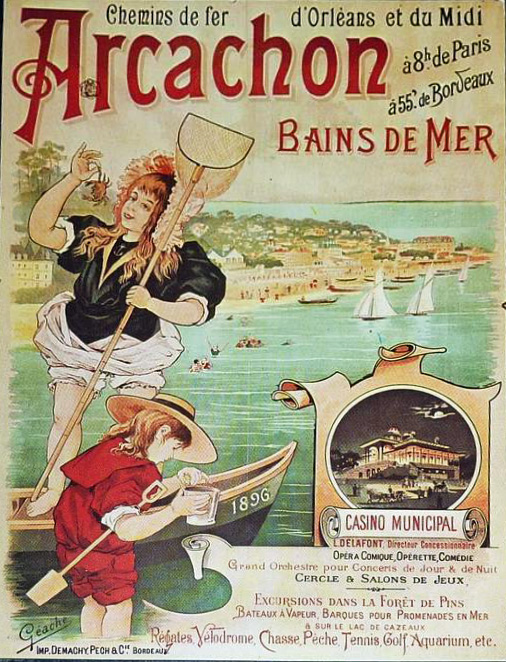 Arcachon posters